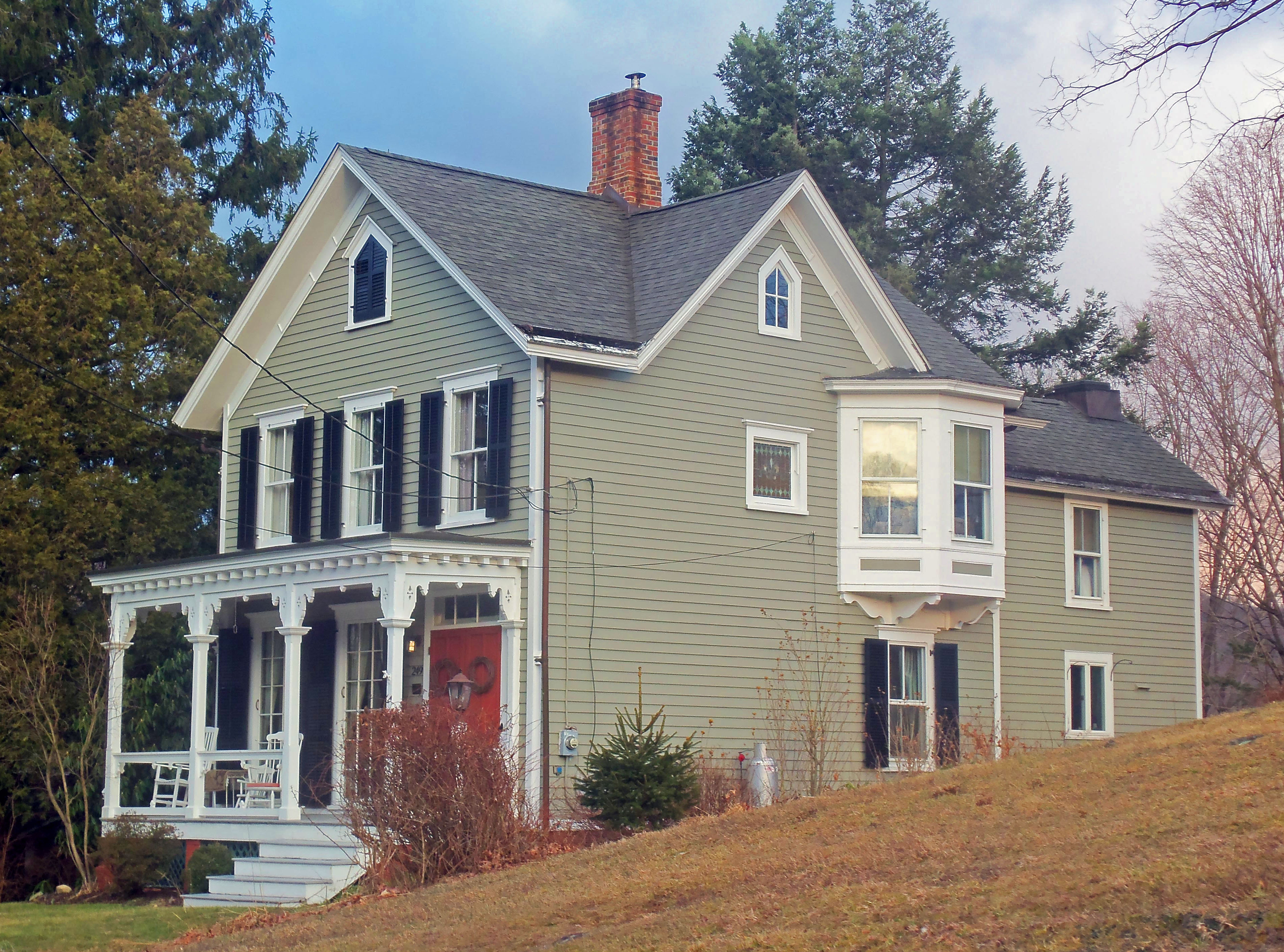 House at 249 Main Street, Nelsonville, NY, as it appeared in 2013 following renovations (compare with 2008 photo